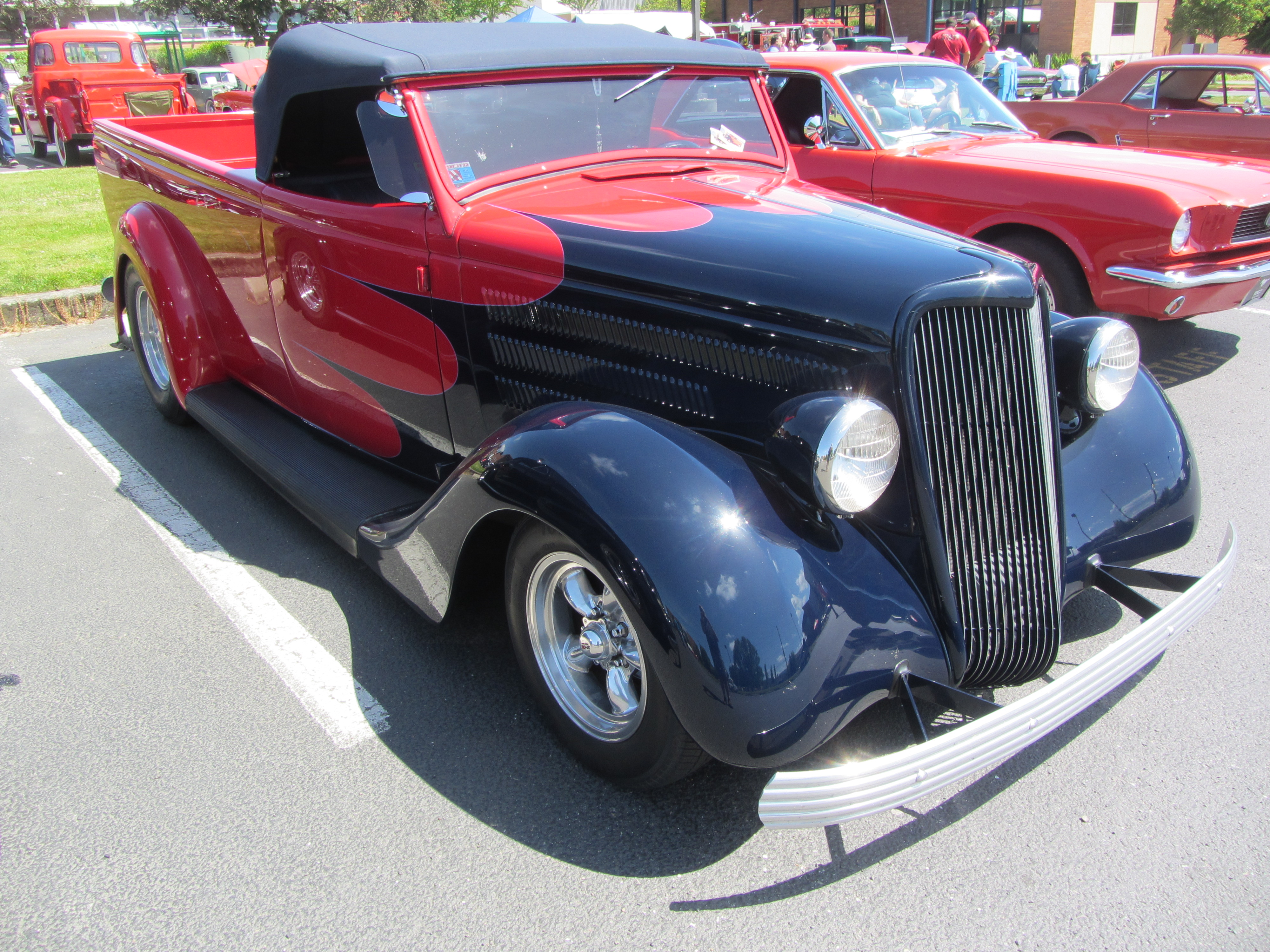 Skagit Valley College Car Show, June 7, 2014 The Australian roadster utility predates the coupe utility, which I believe started in 1934. This one has a photo album of snaps from when found in a paddock to the finished product. It is actually a 1936 with the 1935 front clip. Only about one hundred 1936 roadster utilities were built in Geelong. The owner told me he built this when living in Perth and brought it back with him to Washington state.